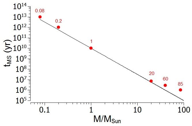 A star' main sequence lifetime dependence on its mass, due to the approximate formula τ M S ≈ 10 10 years ⋅ [ M M ⨀ ] − 2.5 {\displaystyle {\begin{smallmatrix}\tau _{\rm {MS \ \approx 10^{10}{\text{years \cdot \left[{\frac {M}{M_{\bigodot }\right]^{-2.5}\end{smallmatrix } . Red points denote the numerical modelling results for the stars with masses less then solar - from the work Gregory Laughlin et al 1997 ApJ 482 420, and greater then solar - from the work C. Weidner and J. S. Vink A&A, 524 (2010) A98.